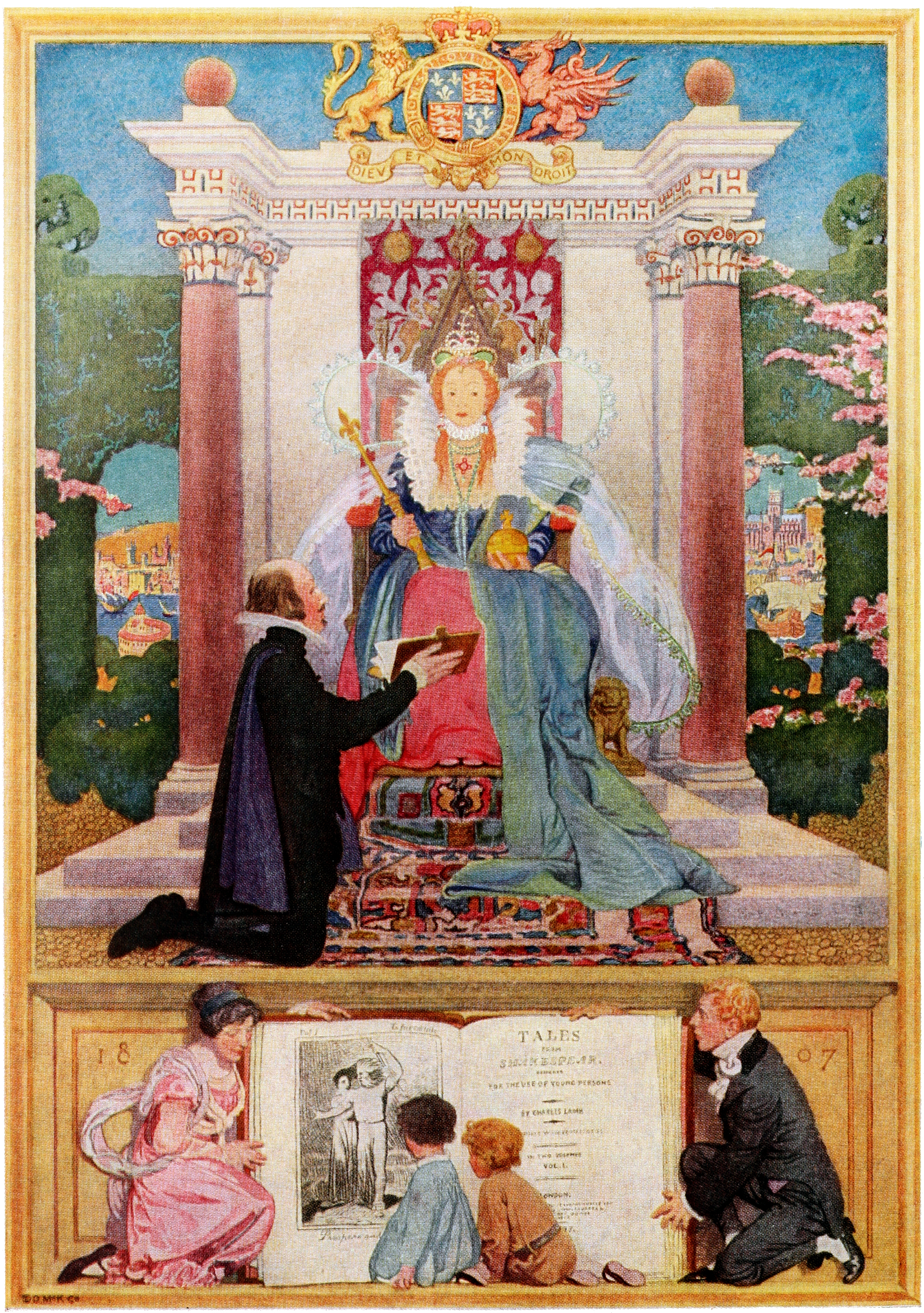 1922 frontispiece illustration for Tales from Shakespeare by Charles and Mary Lamb. Top: Shakespeare presenting plays to Elizabeth I. Bottom: Mary and Charles Lamb presenting tales to children in 1807.